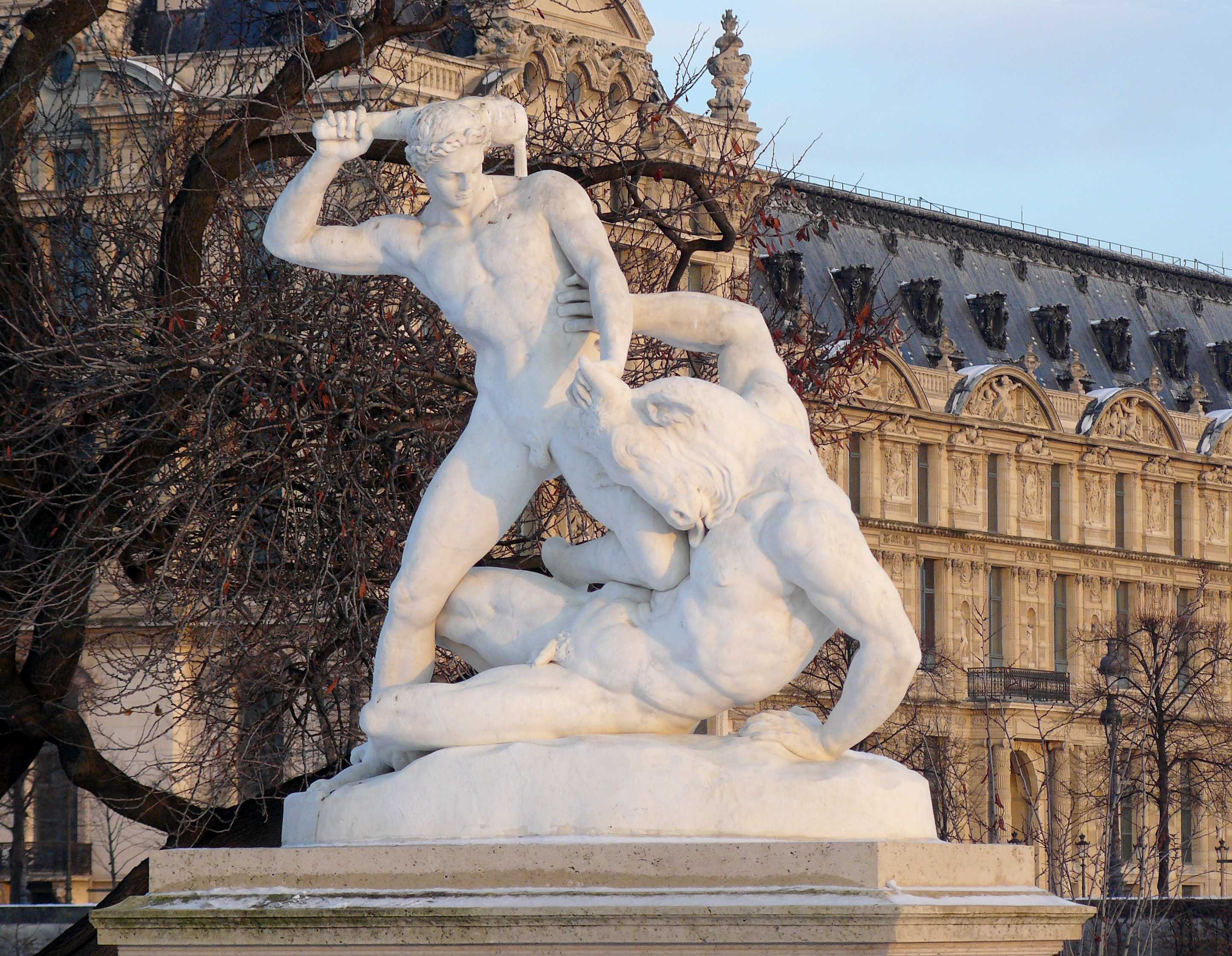 Theseus fighting the Minotaur by Étienne-Jules Ramey (French, 1796–1852). Marble, 1826. In the Tuileries Gardens, Paris.